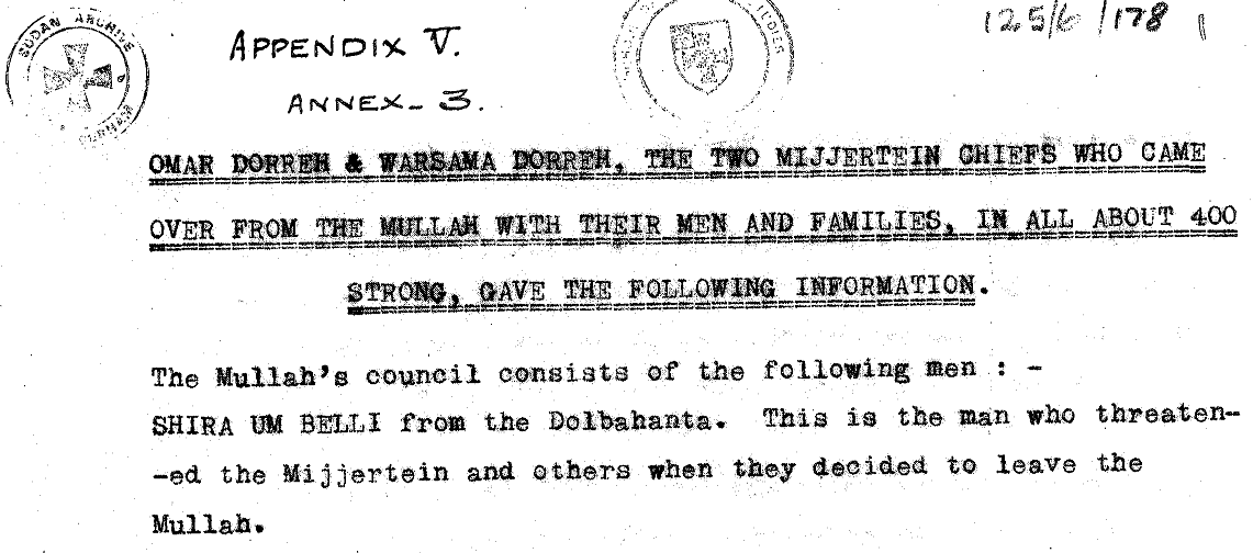 Colonial era (1900s) excerpt, showing Shire Umbaal threatening the majeerteen tribe